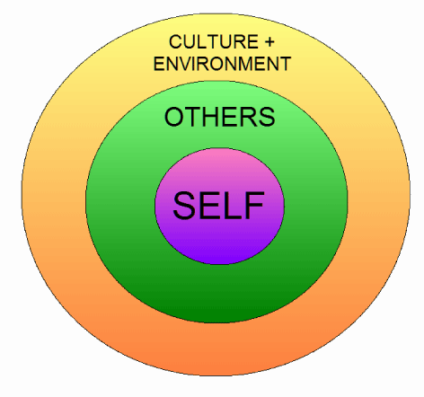 The social self.